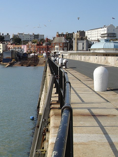 Ramsgate from the East Pier Ramsgate has a wonderful variety of architecture, predominantly Regency and Victorian. The domed red brick building just left of centre is the Custom House (currently empty), to its left the Queen's Head pub with a bas relief head of Victoria on the pediment. To the right stands the Obelisk, dedicated to George IV, behind that, Pete's Fish Palace is a curious crenelated building and in the right foreground, the Royal Victoria Pavilion, now a casino.